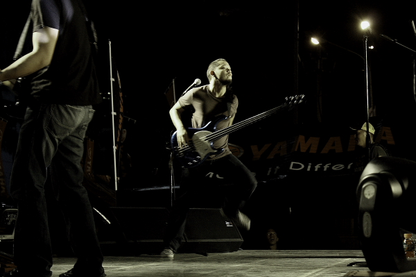 nathan and modulus